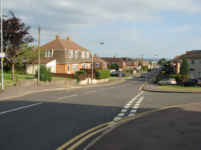 Junction of Mathern Road with Bulwark Road Note the updated "Cornish Unit" housing along and off Bulwark Road.